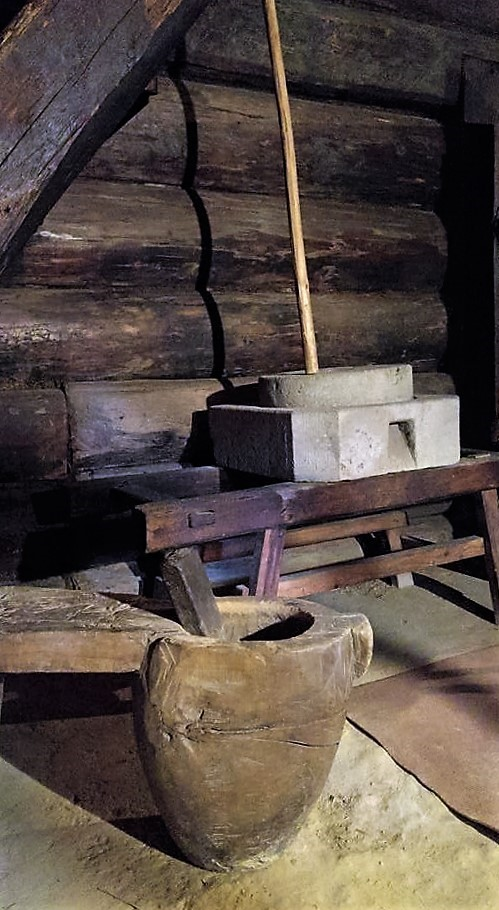 Old House" - open-air museum in Milówka, Poland, interior